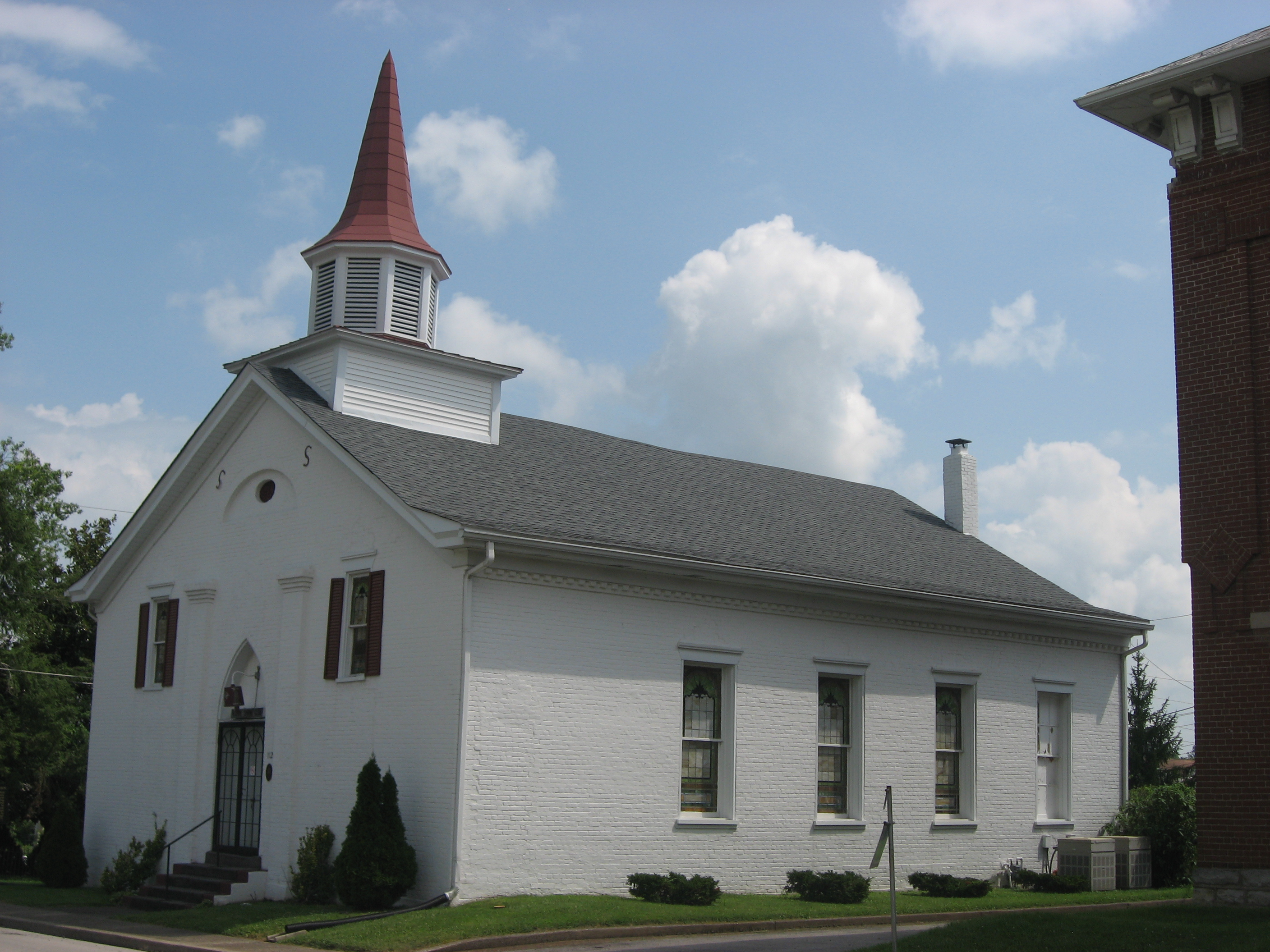 Front and western side of the former First Baptist Church, located at 112 W. Poplar Street in Elizabethtown, Kentucky, United States. Built in 1855, it is listed on the National Register of Historic Places.